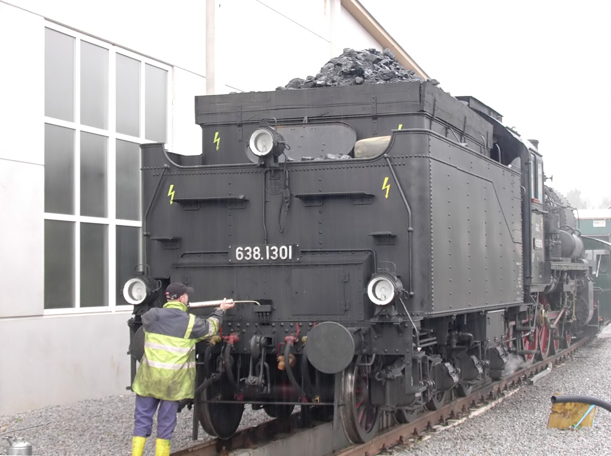 An Austrian steam locomotive, number 638.1301, being greased. 638.1301 is the former Prussian P 8 engine "230.301" of Căile Ferate Române which was renumbered by the Österreichische Gesellschaft für Eisenbahngeschichte into 638.1301 in 2004. It is today privately owned by the "Österreichische Gesellschaft für Eisenbahngeschichte" (Austrian Federation for Railroad History).